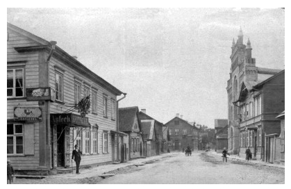 View from the street on the Choral synagogue of Tallinn, built in 1885, destroyed during WWII.